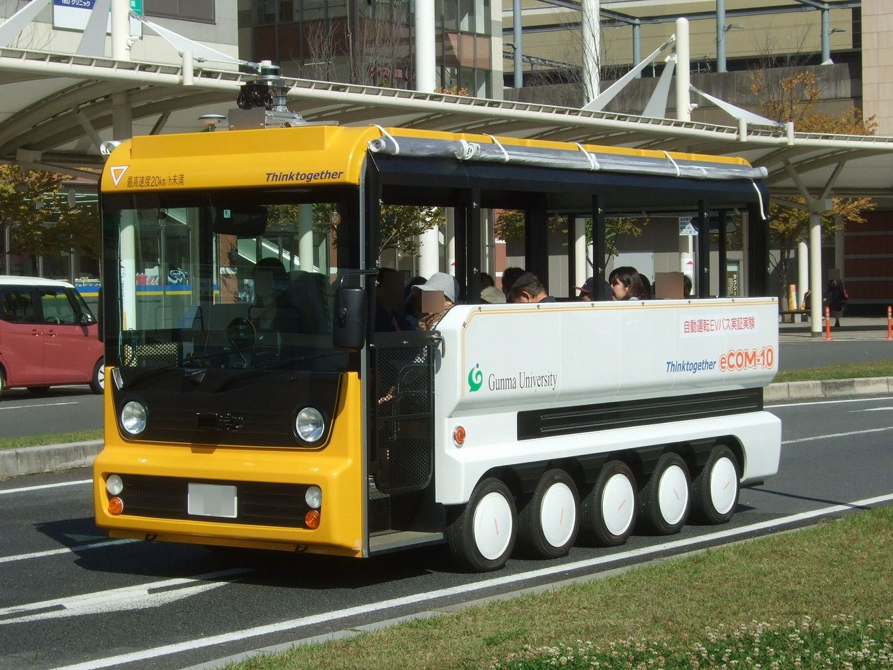 "eCOM-10", a self-driving EV bus developed by Gunma University and Thinktogether Co. Ltd.. This is demonstrational operation in Oita City.